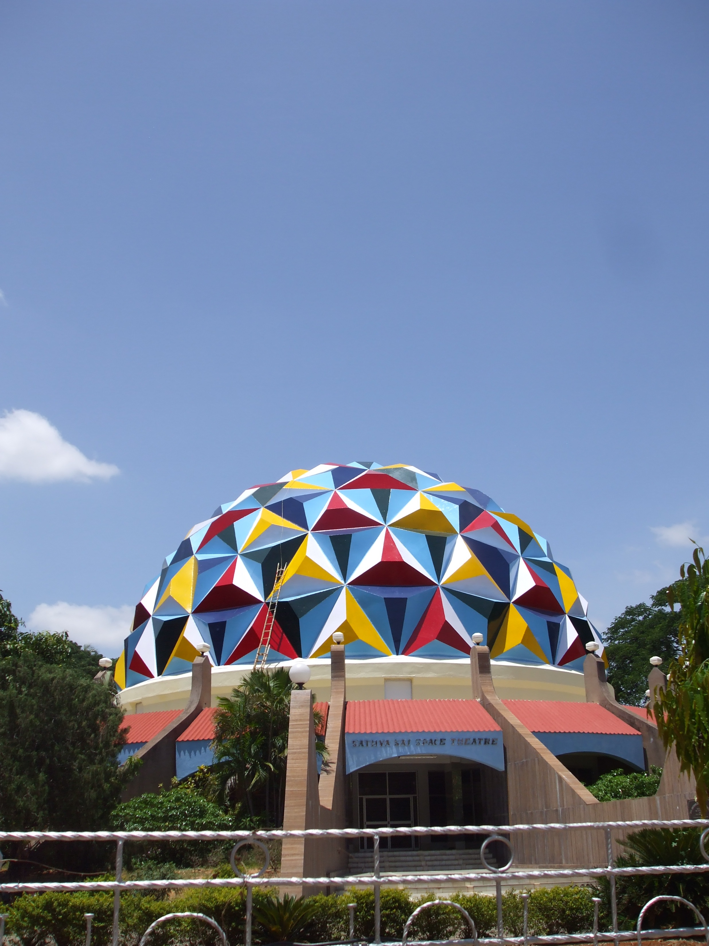 Planetarium in Puttaprthi